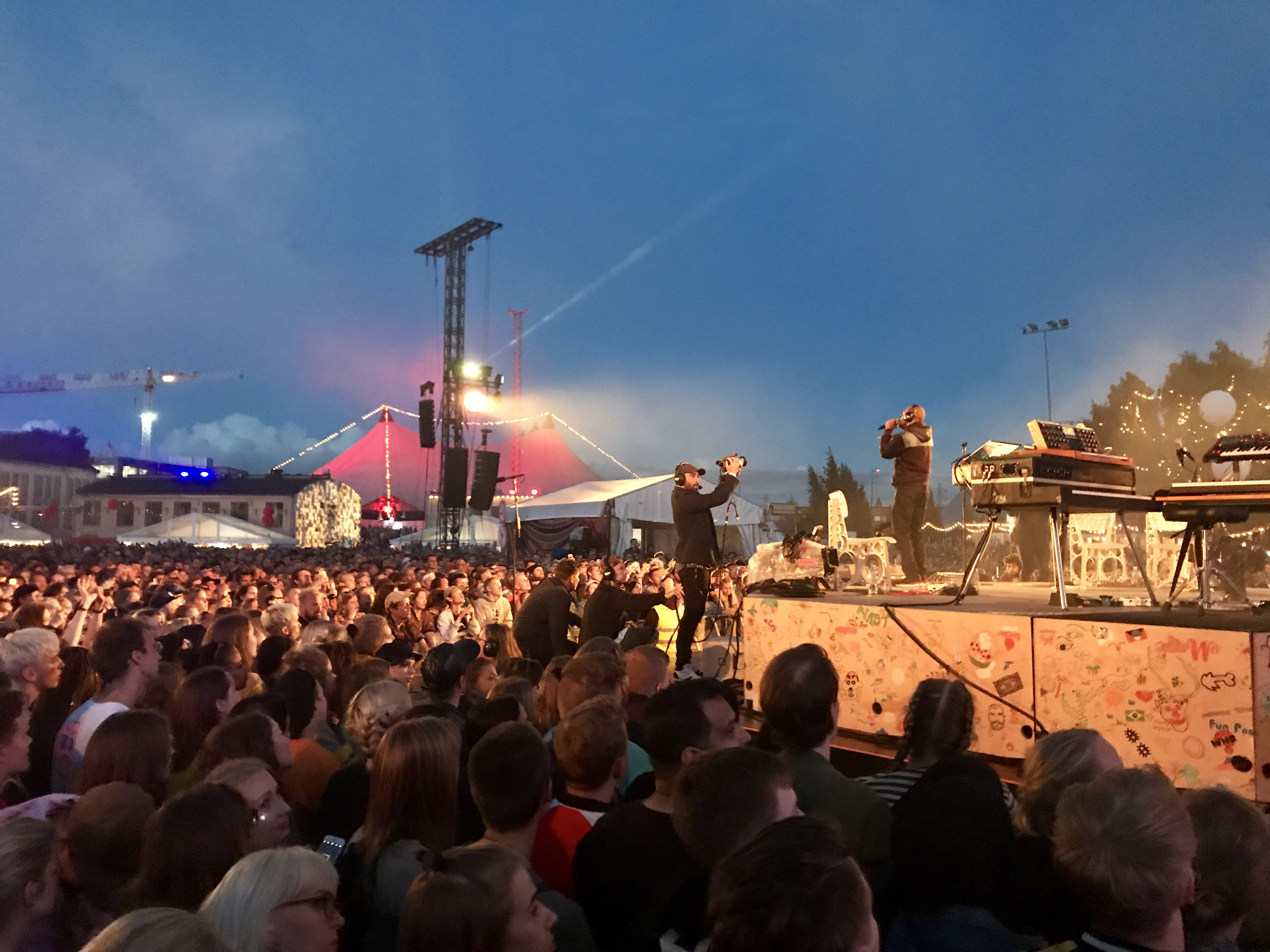 Frank Ocean performing at Flow Festival 2017.